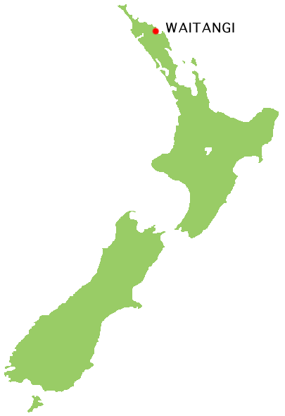 Location map of Waitangi, Bay of Islands, Far North, Northland, North Island, New Zealand